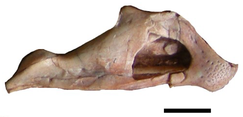 Yulong mini (HGM 41HIII-0109) lower jaw. Scale bar = 1 cm.